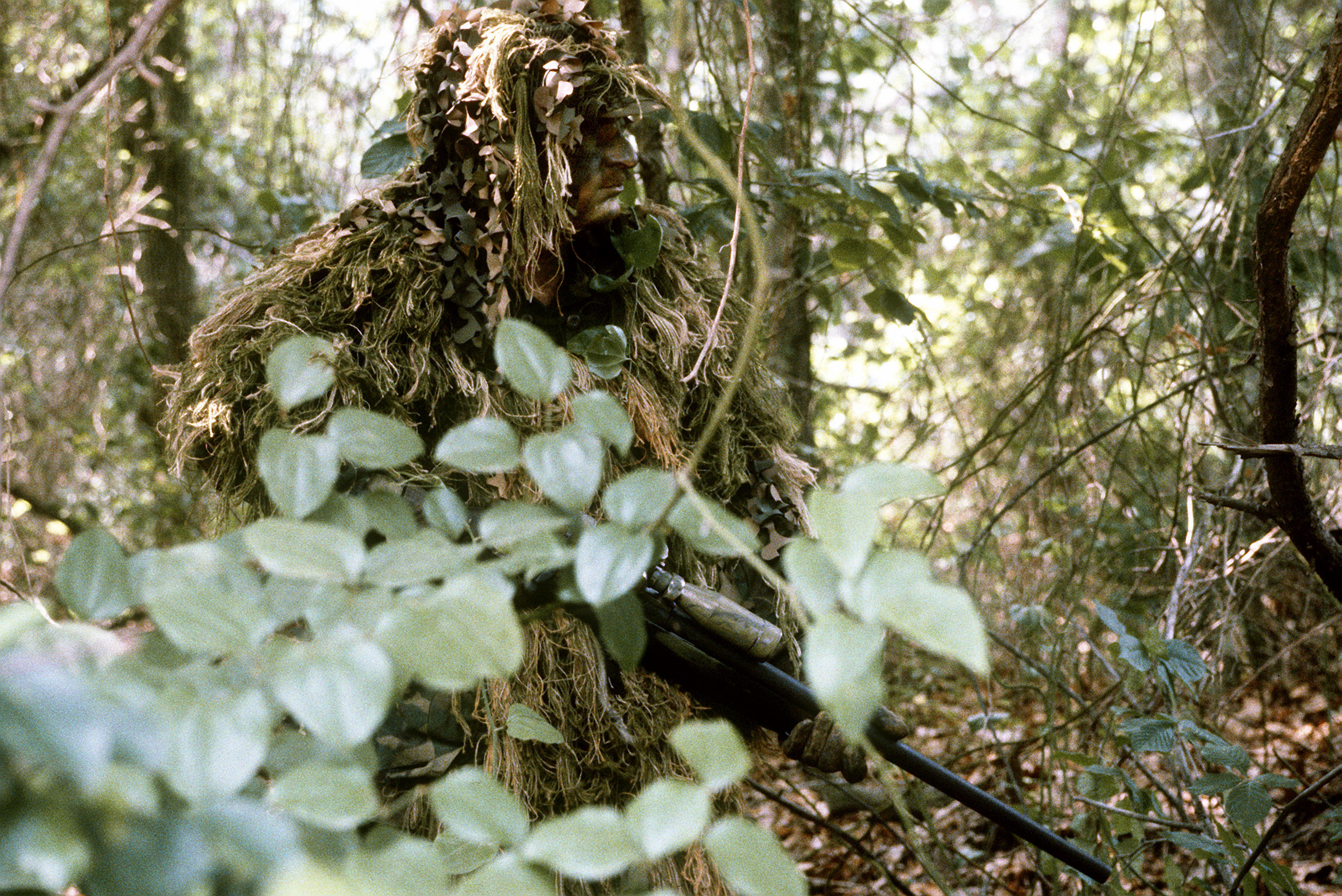 A Marine sniper wearing sniper camouflage gear known as a "ghillie" suit advances through a forest during a training exercise.